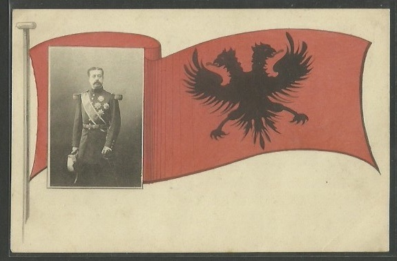 Postcard of Aladro Kastriota, many of them distributed by his agents. All before 1908.